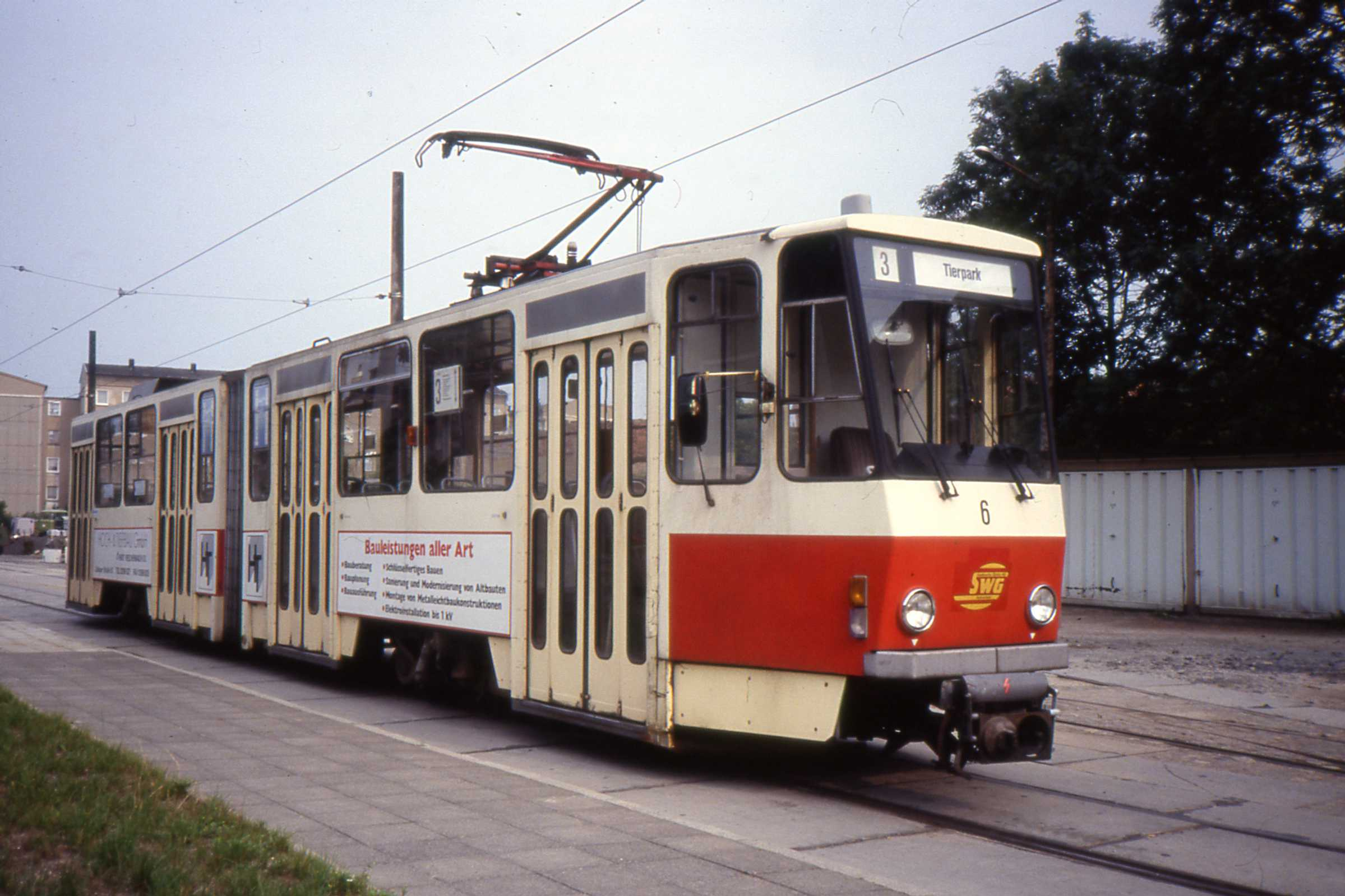 Görlitz bought 11 of these KT4D cars, numbered 1-11 between 1983 and 1990. In 1992 5 more arrived from Erfurt, followed by 3 more from Cottbus in 1998. Between 1993 and 2002, the numbers were preceded by a zero . Following the purchase of the system by Connex the KT4D trams here were numbered 301-19. The original PUR plastic seats were replaced by upholstered ones.